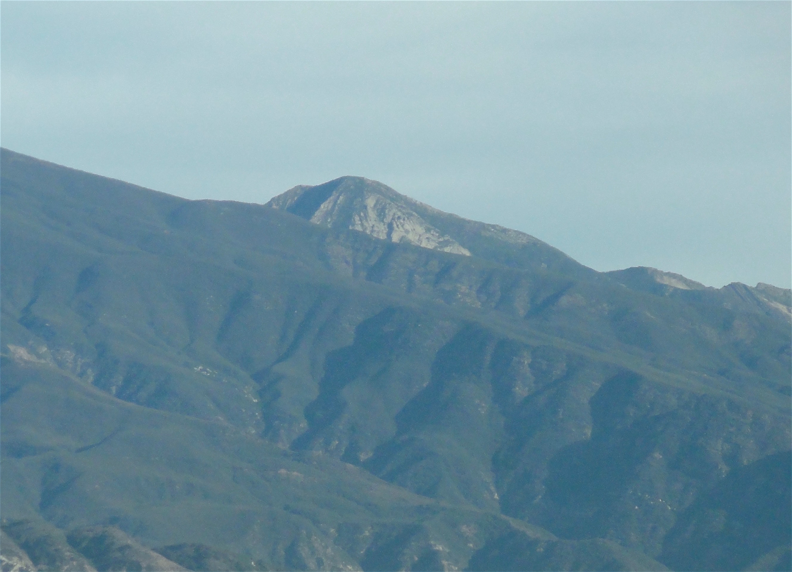 View from the southwest of Hines Peak.